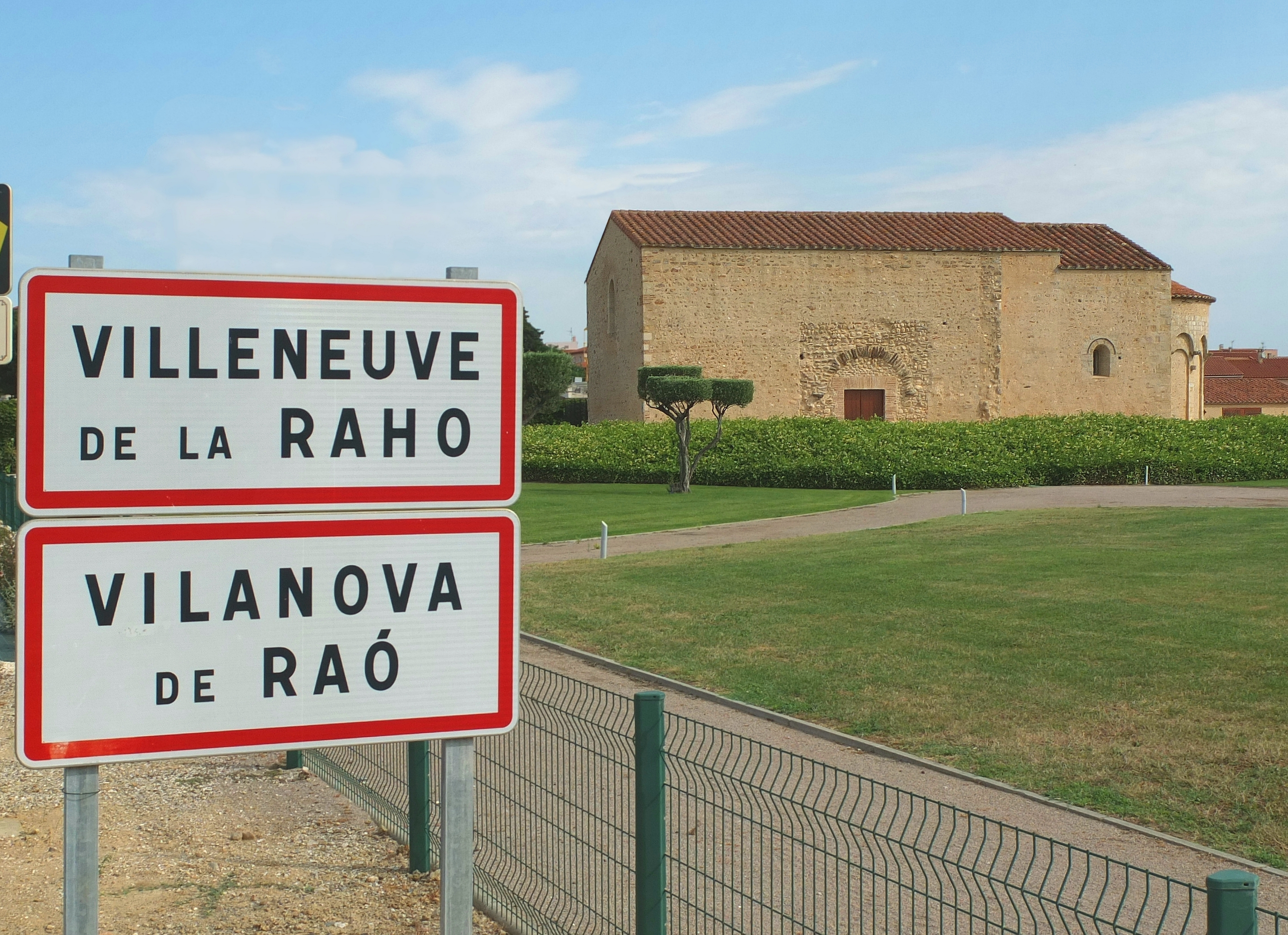 Chapel Saint-Julien-et-Sainte-Basilisse, 12th century, in Villeneuve-de-la-Raho, Pyrénées-Orientales, France.